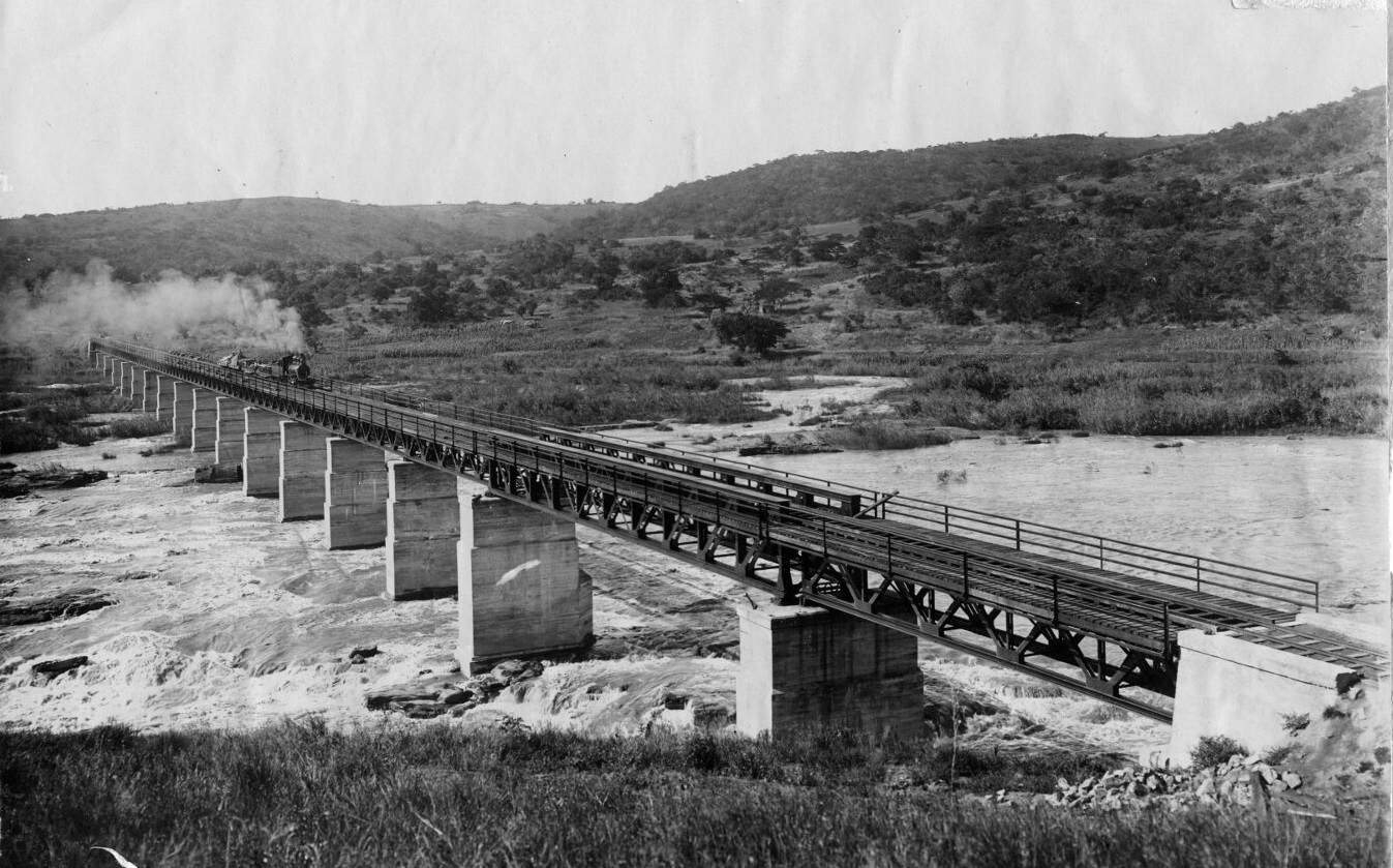 Railway bridge over the lower Tugela River c 1911